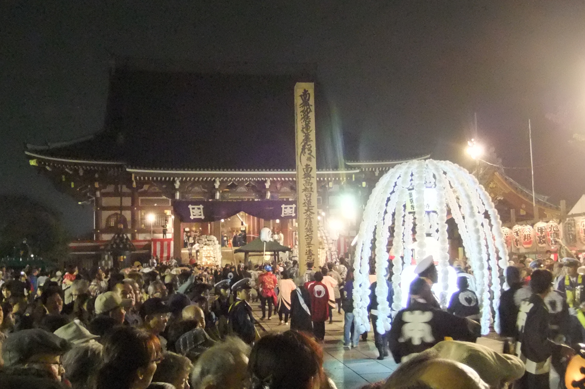 "Oeshiki" ceremony at Ikegami Honmon-ji temple